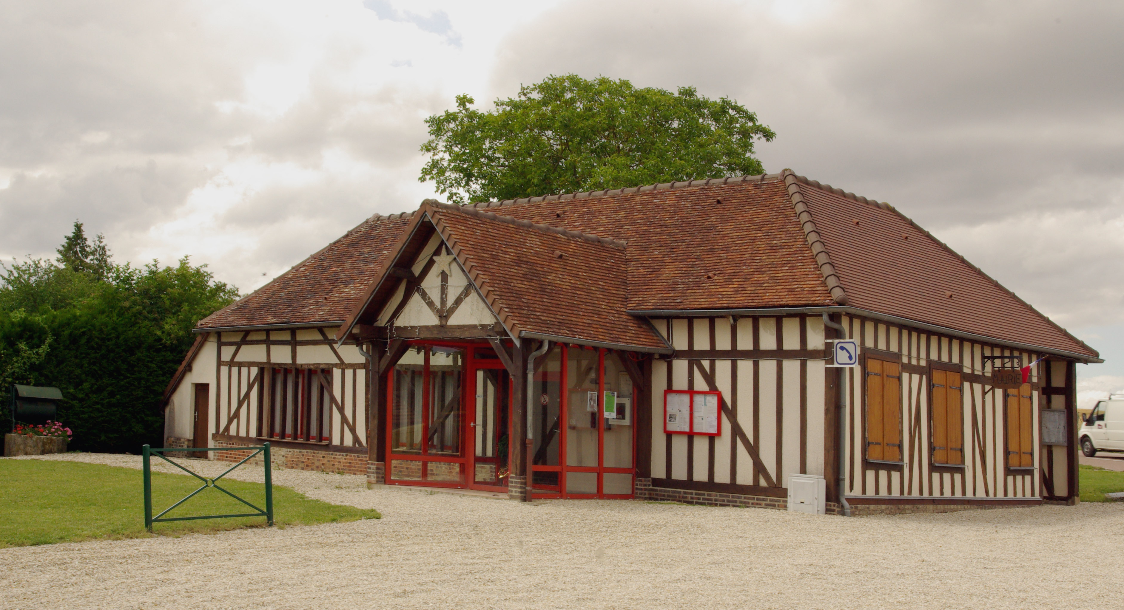 Feuges City Hall